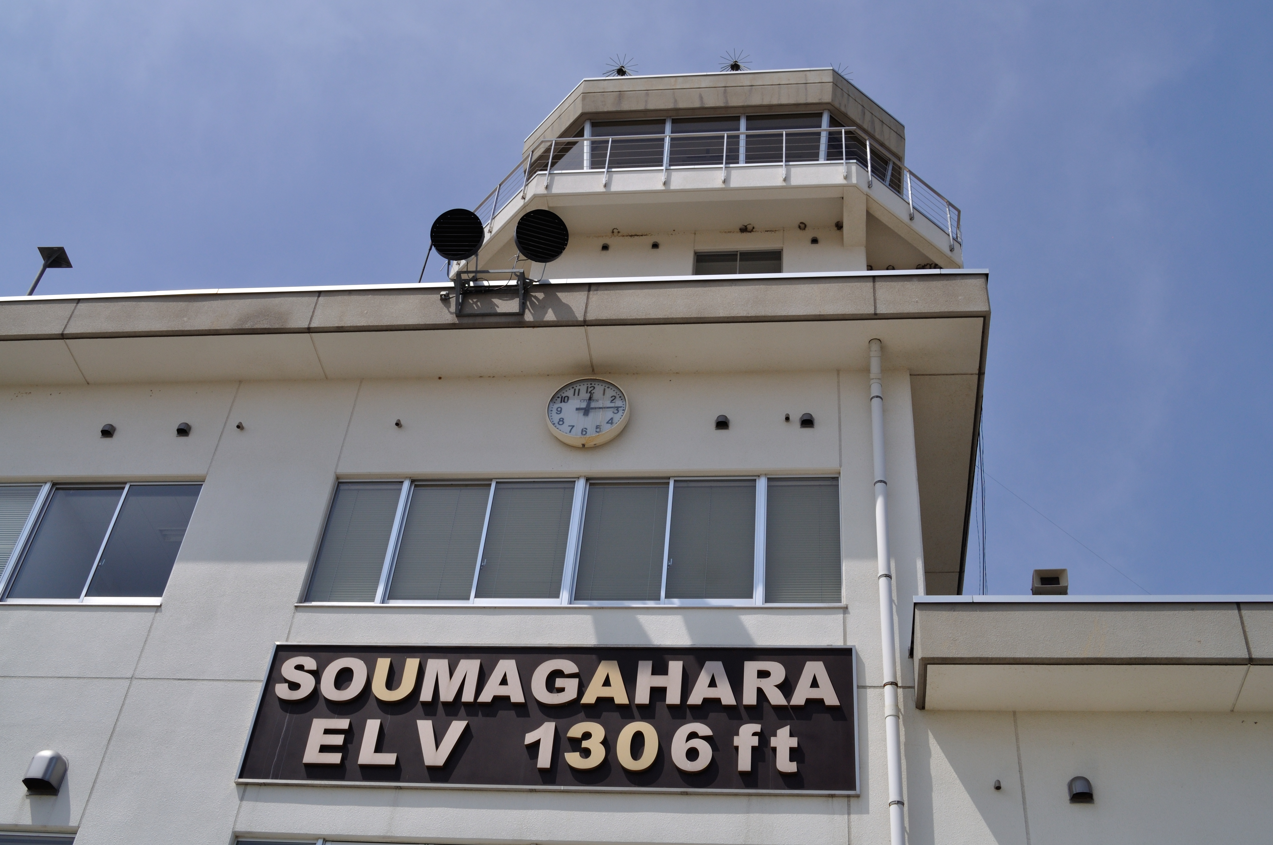 Control Tower of the Japan Ground Self-Defense Force Soumagahara Air Field.